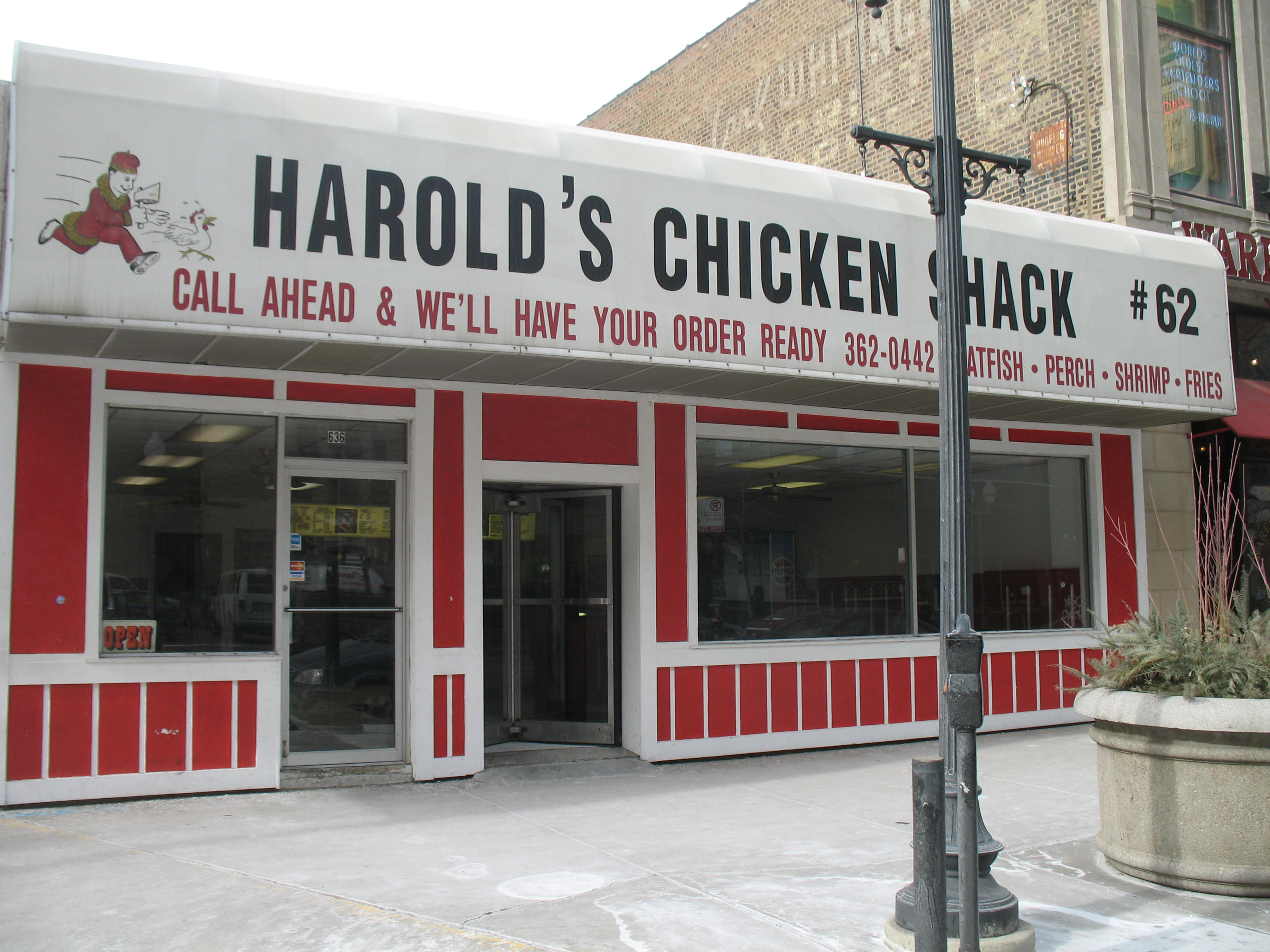 Harold's Chicken Shack #62.